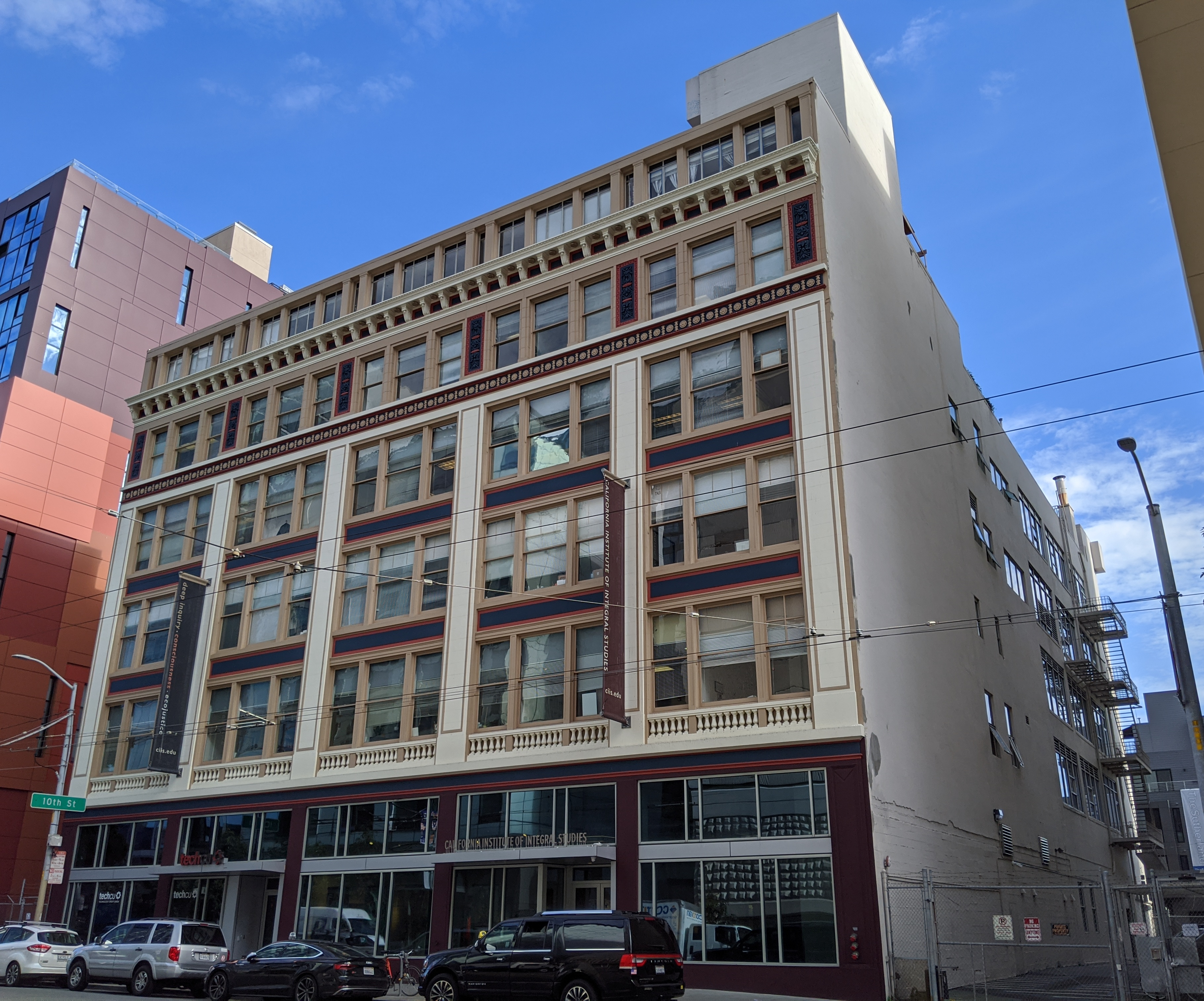 The main campus of the California Institute of Integral Studies in San Francisco's South of Market (SoMA) neighborhood, seen across Mission Street, with a branch of Tech CU on the lower left